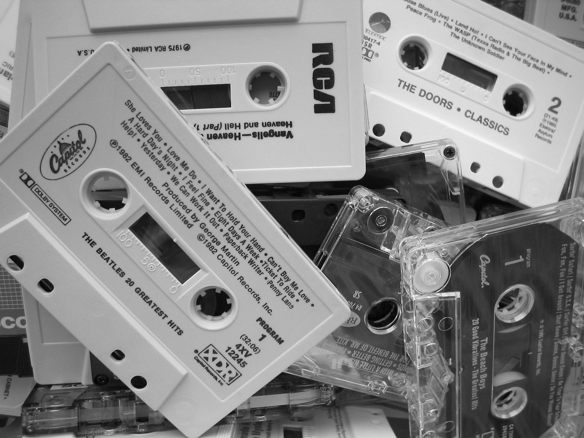 A bin of loose cassette tapes